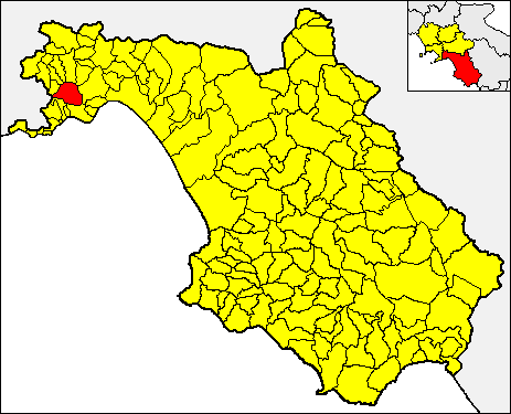 Locator map of the municipality of Tramonti (red) within the Province of Salerno